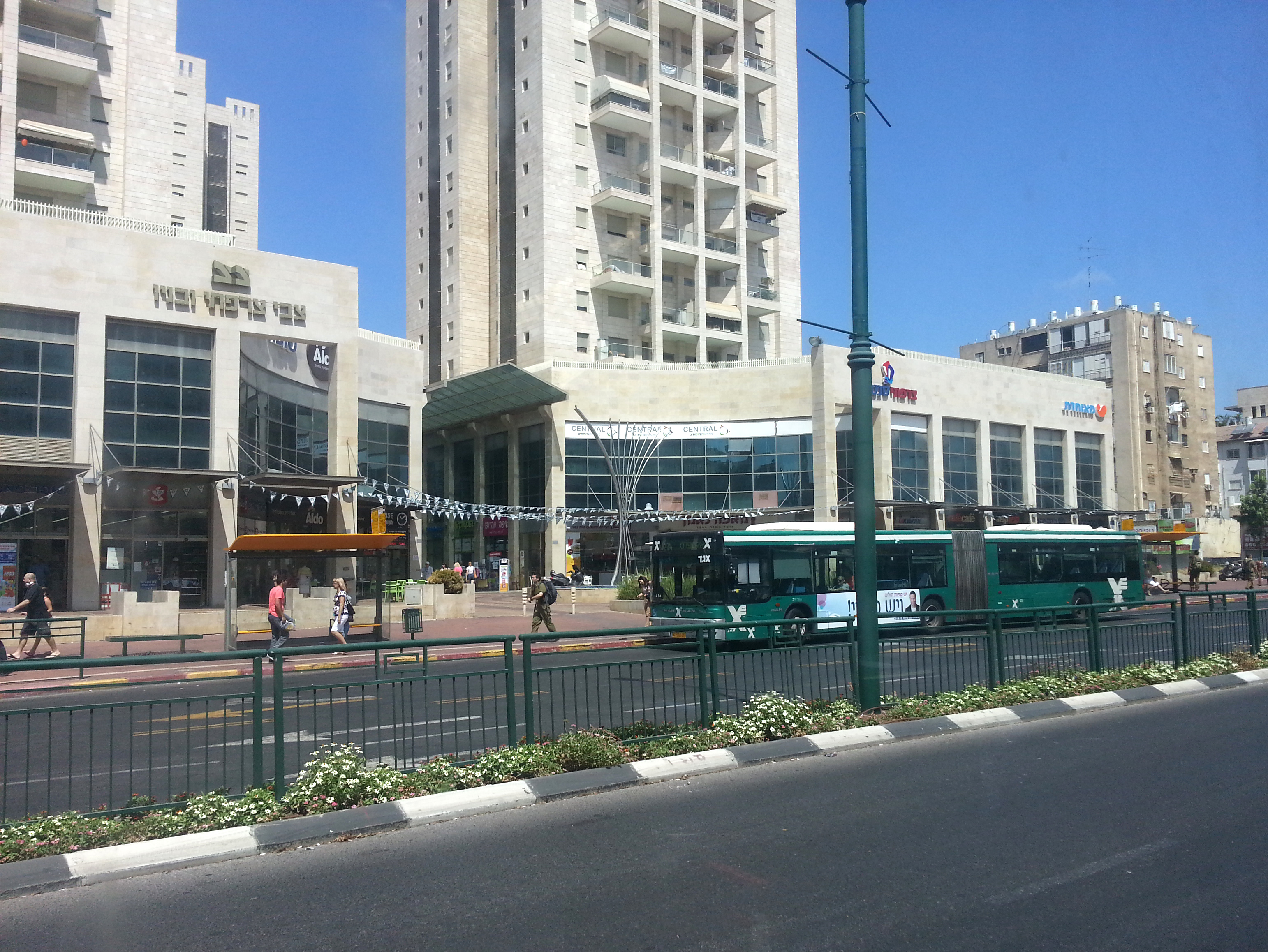 Old Central Bus Station on Herzl Boulevards, Rishon LeZion, Israel, 2014